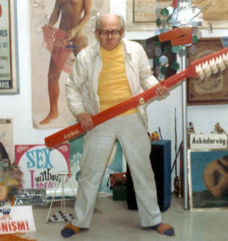 Kary H. Lasch, as released by image creator Lars Jacob ProdPlace: Skeppargatan 4, Stockholm, Sweden